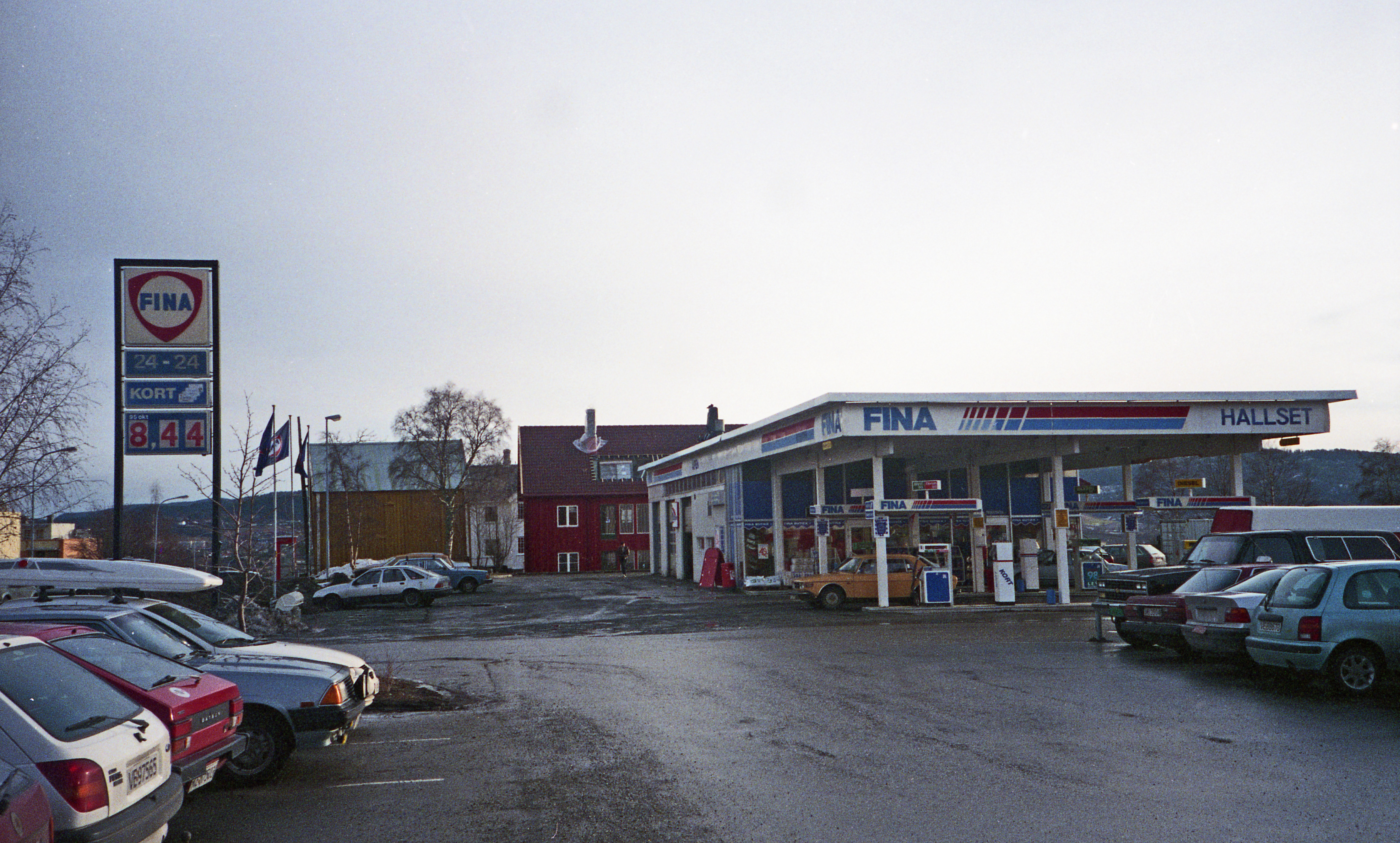 Format: Fotonegativ Film: Kodak Gold 200 Dato / Date: 23 Februar 1998 Fotograf / Photographer: Byantikvaren Sted / Place: Hallset Trafikksenter, Fina - Søndre Hallset 3, 7027 Trondheim Wikipedia: Norske Fina Eier / Owner Institution: Trondheim byarkiv, The Municipal Archives of Trondheim Arkivreferanse / Archive reference: Film 1 Negativ - F21405